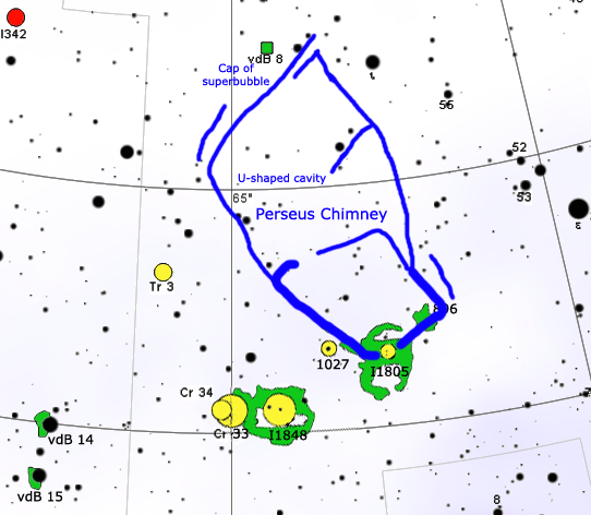 Map of Perseus Chimney, just to the north of W4 region, in Cassiopeia